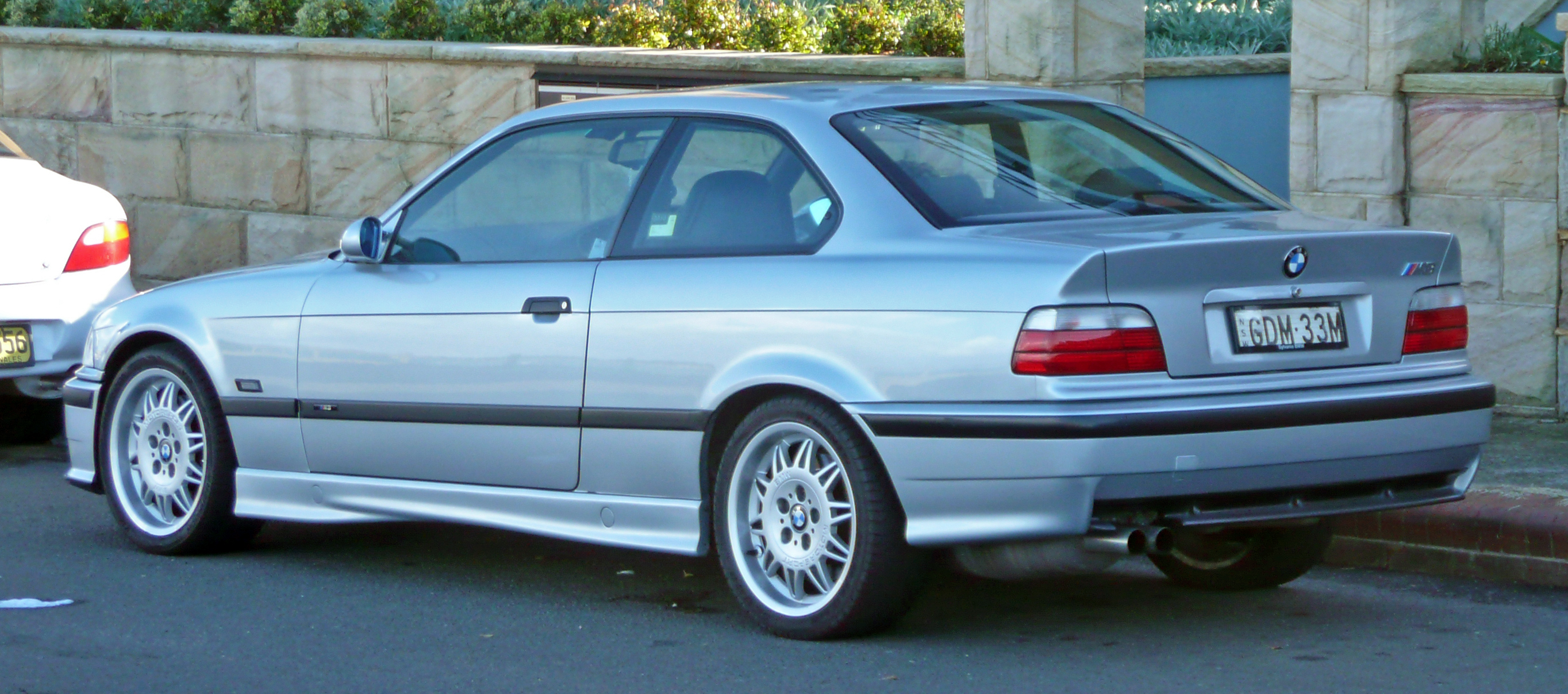 1995–1999 BMW M3 (E36) coupe. Photographed in Cronulla, New South Wales, Australia.